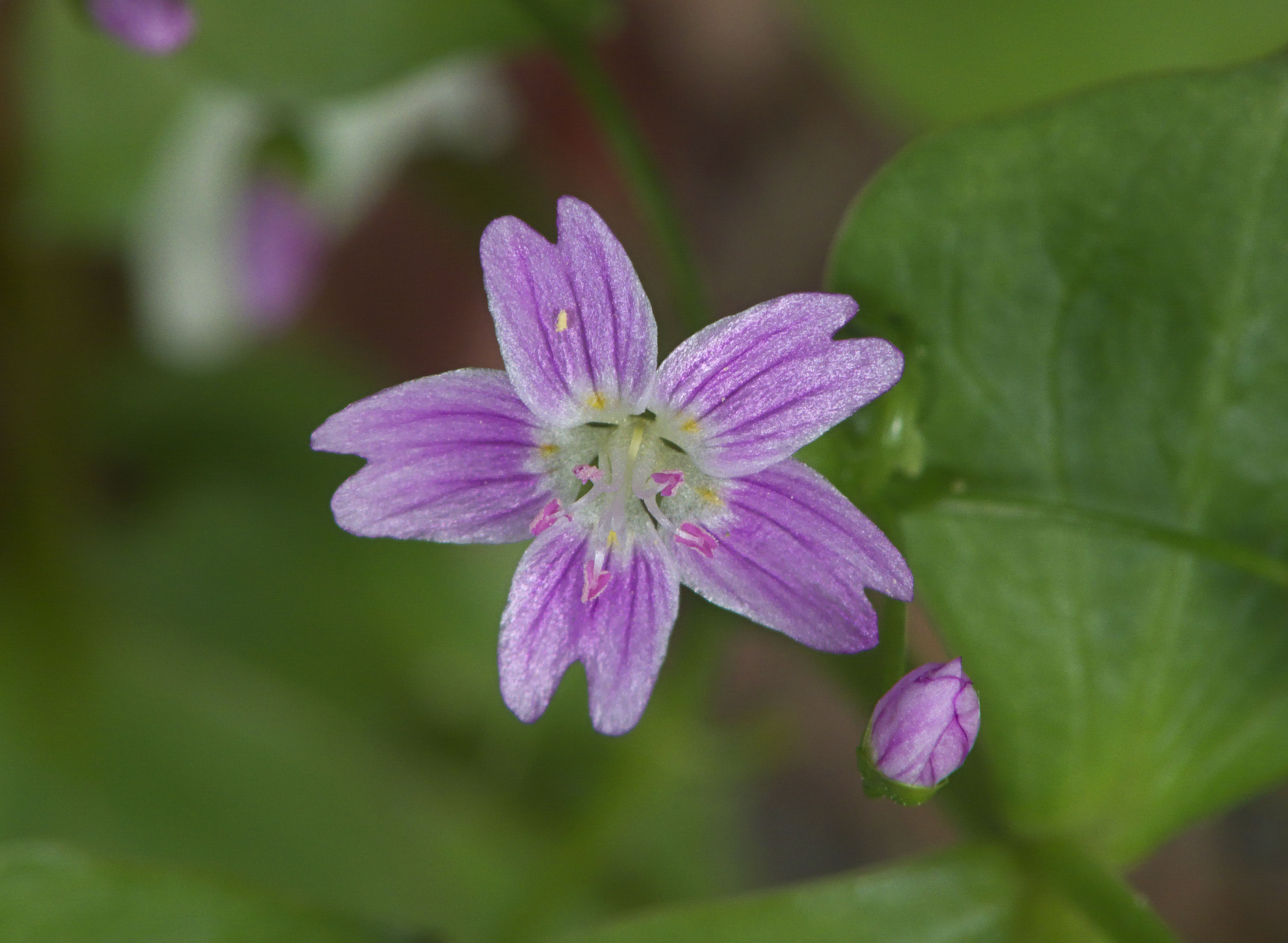 Claytonia sibirica flower